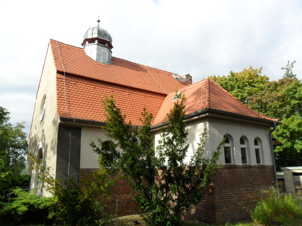 The old morgue at the Jewish cemetery.